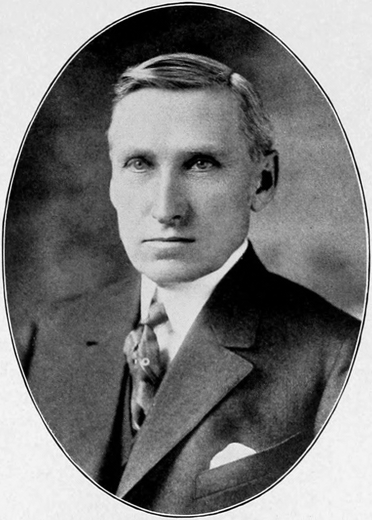 Richard Elihu Sloan, last territorial governor of the U.S. state of Arizona.